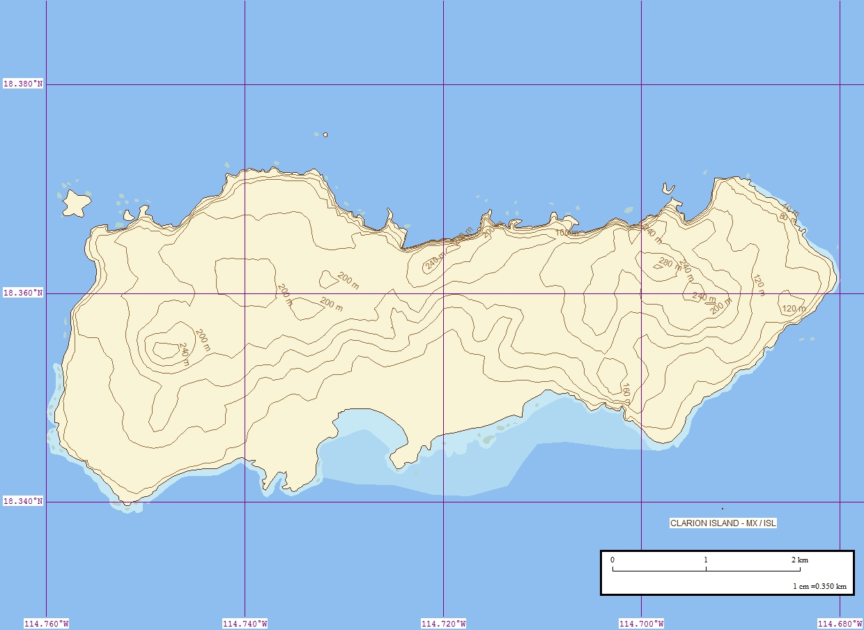 EVS Precision Island Map of Clarion Island, Revillagigedo Islands, Mexico